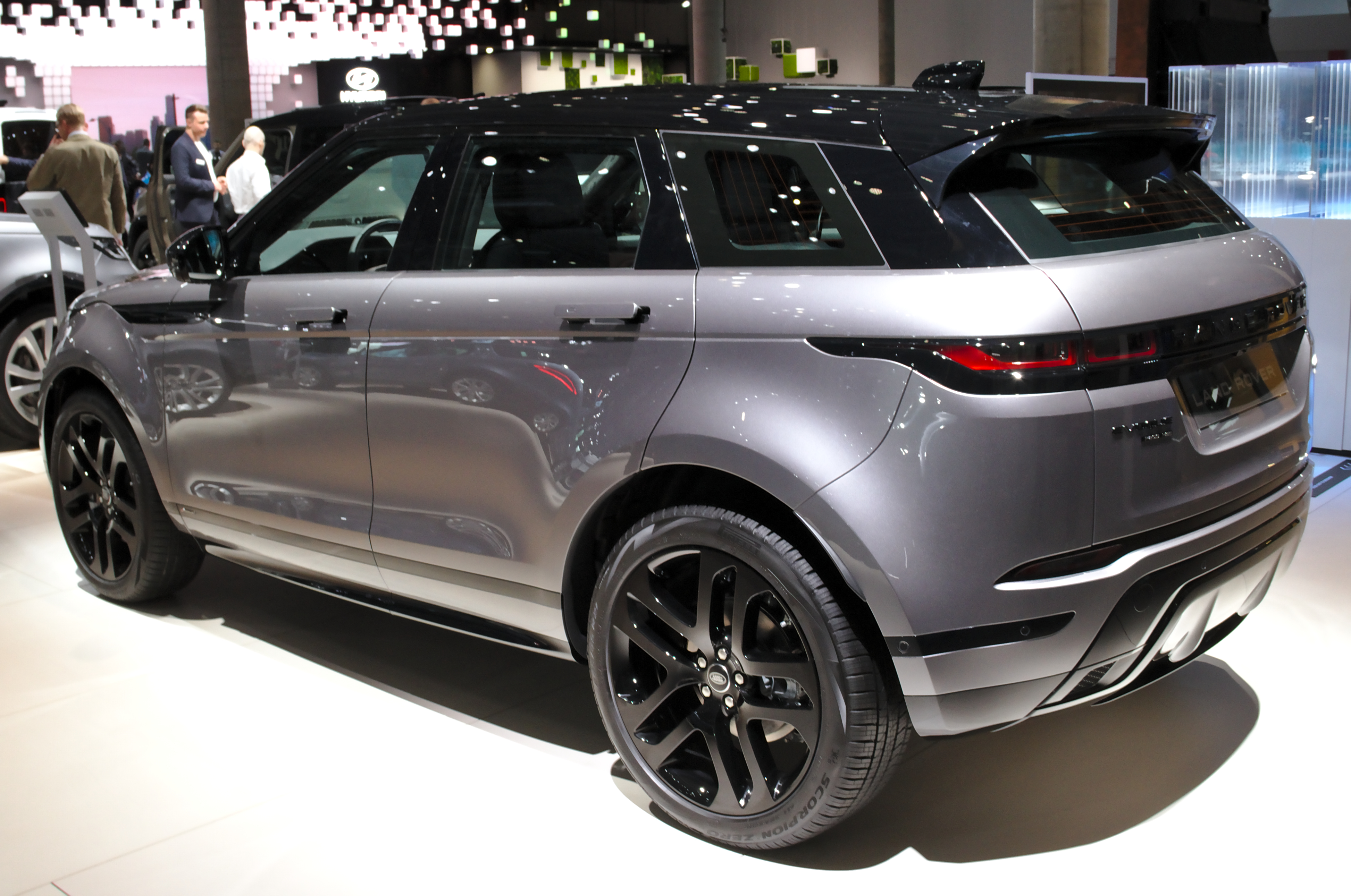 Range_Rover_Evoque_(L551) at IAA 2019